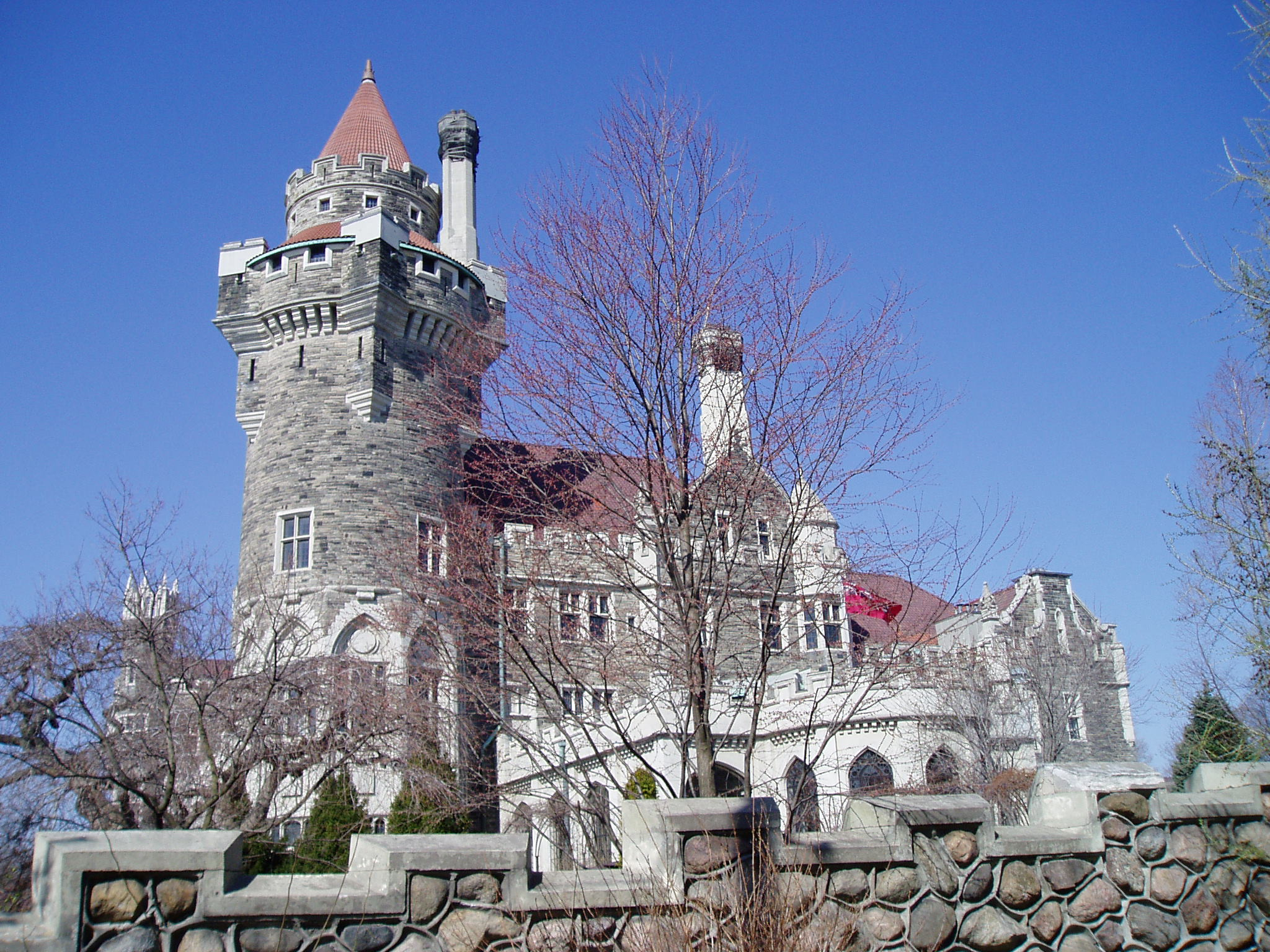 Casa Loma, 1 Austin Terrace, Toronto, Ontario, Canada. (Original text also include: Taken by SimonP in April 2005).